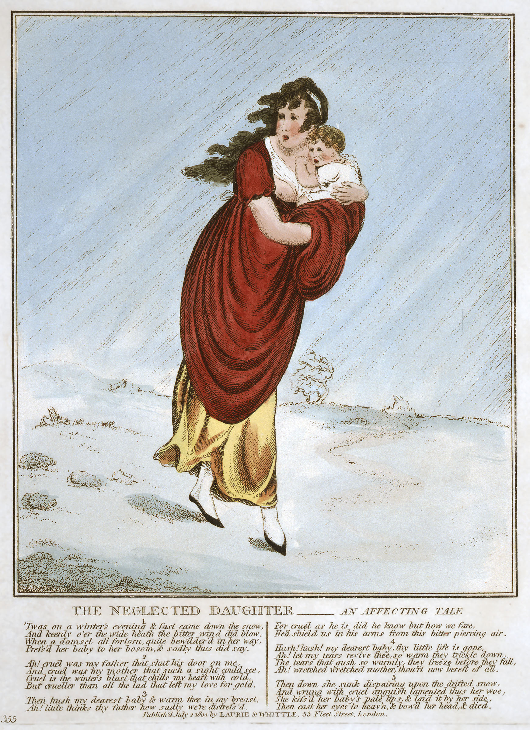 "The Neglected Daughter -- An Affecting Tale", a July 2nd 1804 colored engraving, showing a cautionary sentimentalized depiction of one of the worst-case scenarios for an unmarried girl or young woman who became pregnant (i.e. dying of homelessness after having been disowned by her family and abandoned by her seducer). The other main worst-case scenario -- being forced into prostitution -- didn't lend itself to such elegantly elevating verse as is included at the bottom of the print. The England of 1804 was in some ways less rigidly inflexible than it became later on (in the Victorian period), but there was still a rather strong sexual double standard, and a middle class never-married girl or young woman who gave birth to a child would generally find herself "excluded from polite society" (even if her family were somewhat forgiving and indulgent), unless perhaps if she retrieved her reputation partially by marrying.